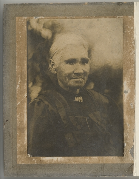 Call Number: P1 / 1784 Format: photoprint Find more detailed information about this photograph: Search for more great images in the State Library's collections: .au/search/SimpleSearch.aspx From the collection of the State Library of New South Wales